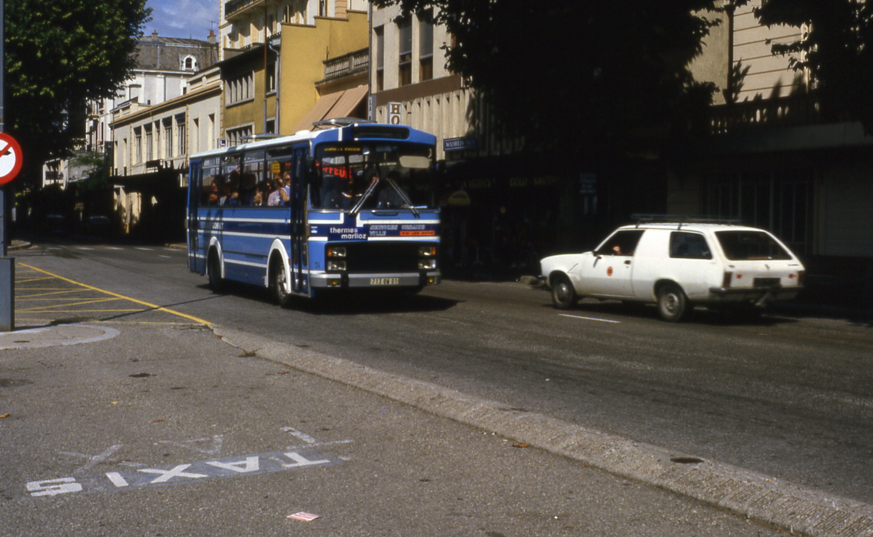 A VanHool-Fiat 314 (Cars Gonnet) running on a SUA’s line, in the Boulevard Président Wilson (Aix-les-Bains, France) in September 1983.